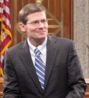 CIA Acting Director Michael Morell